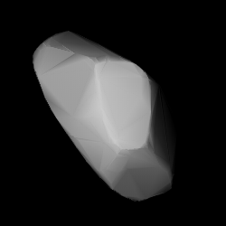 3D convex shape model of 4709 Ennomos, computed using light curve inversion techniques. J. Hanuš, J. Ďurech, M. Brož, B. D. Warner (June 2011). "A study of asteroid pole-latitude distribution based on an extended set of shape models derived by the lightcurve inversion method". Astronomy and Astrophysics 530: A134. ISSN 0004-6361. arXiv